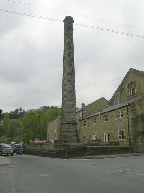 Lowertown Mill Chimney - Station Road